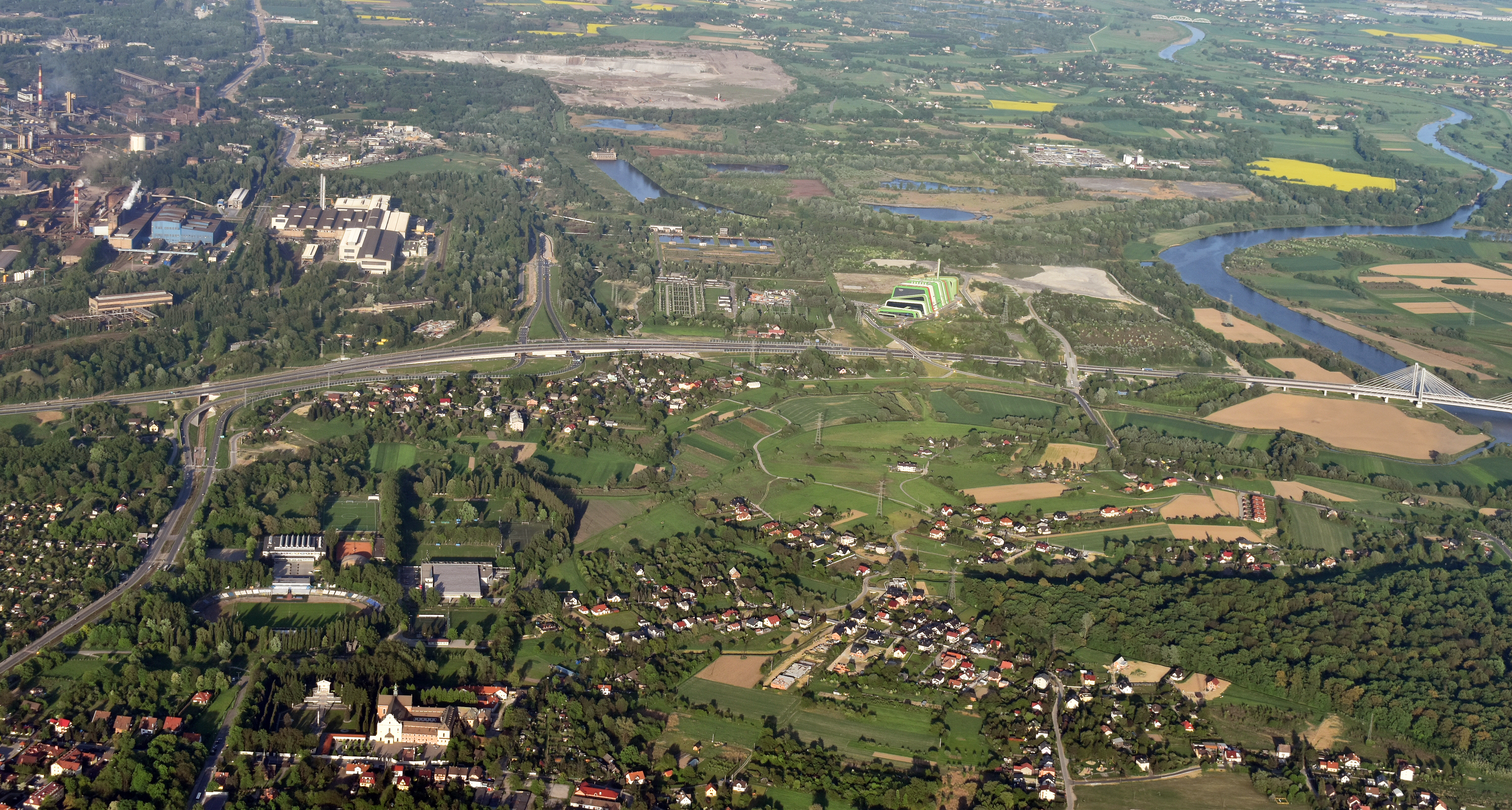 Former village Mogila (view from W), Nowa Huta, Krakow, Poland